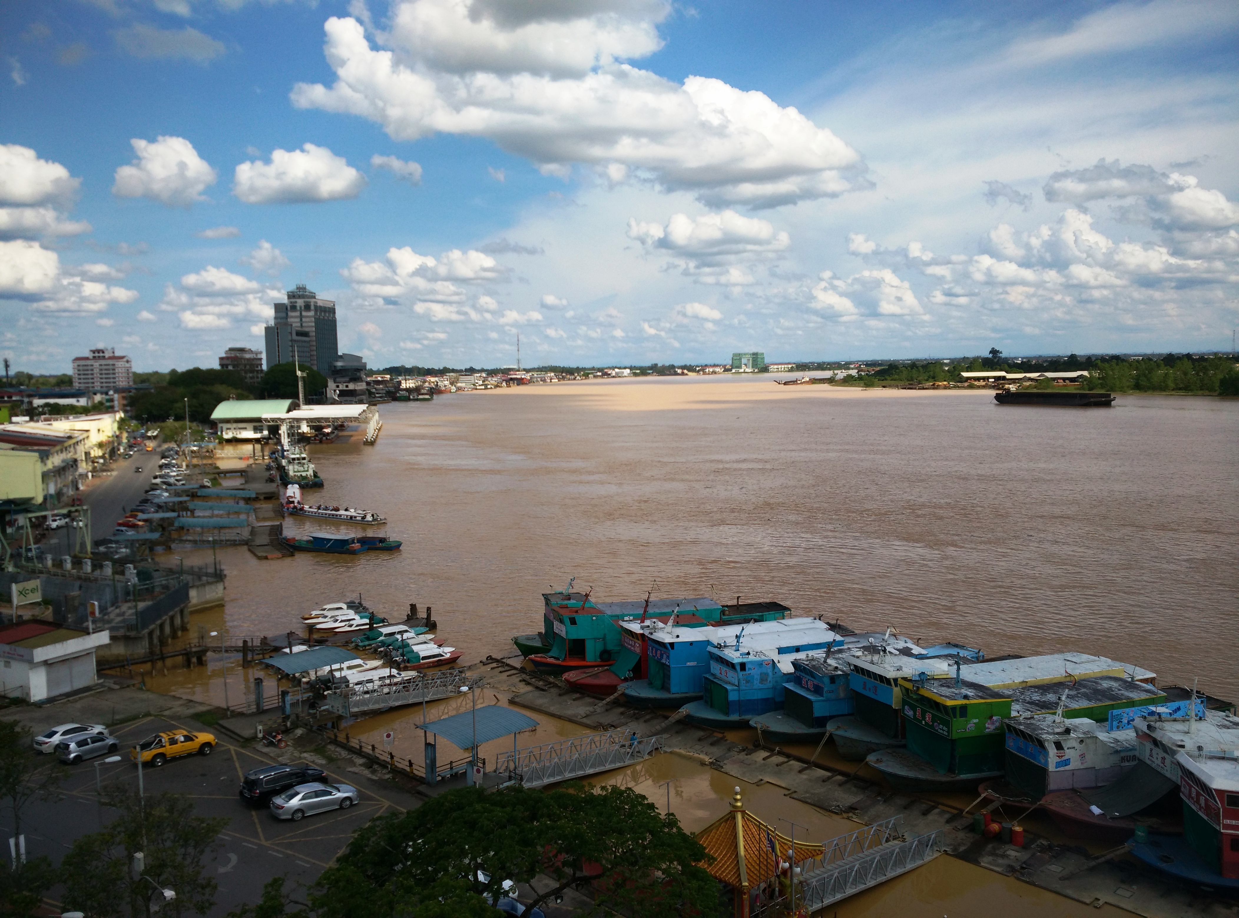 Sibu Rajang river view from the Tua Pek Kong temple.